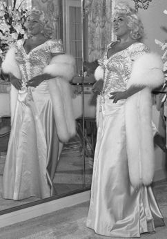 Mae West posing in front of mirror for promotion